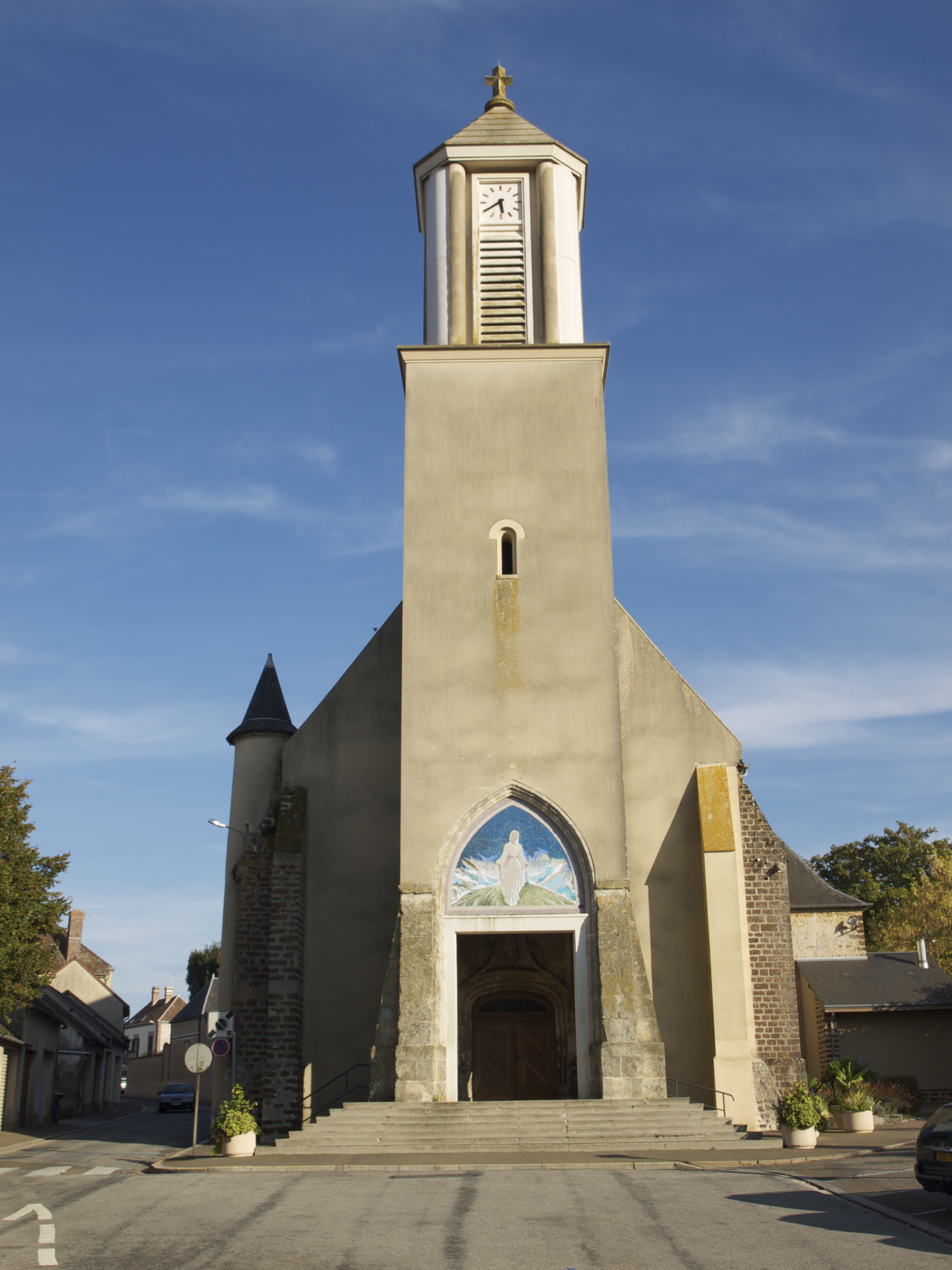 Notre Dame des fleurs, city of La Loupe, Eure-et-Loir, France.